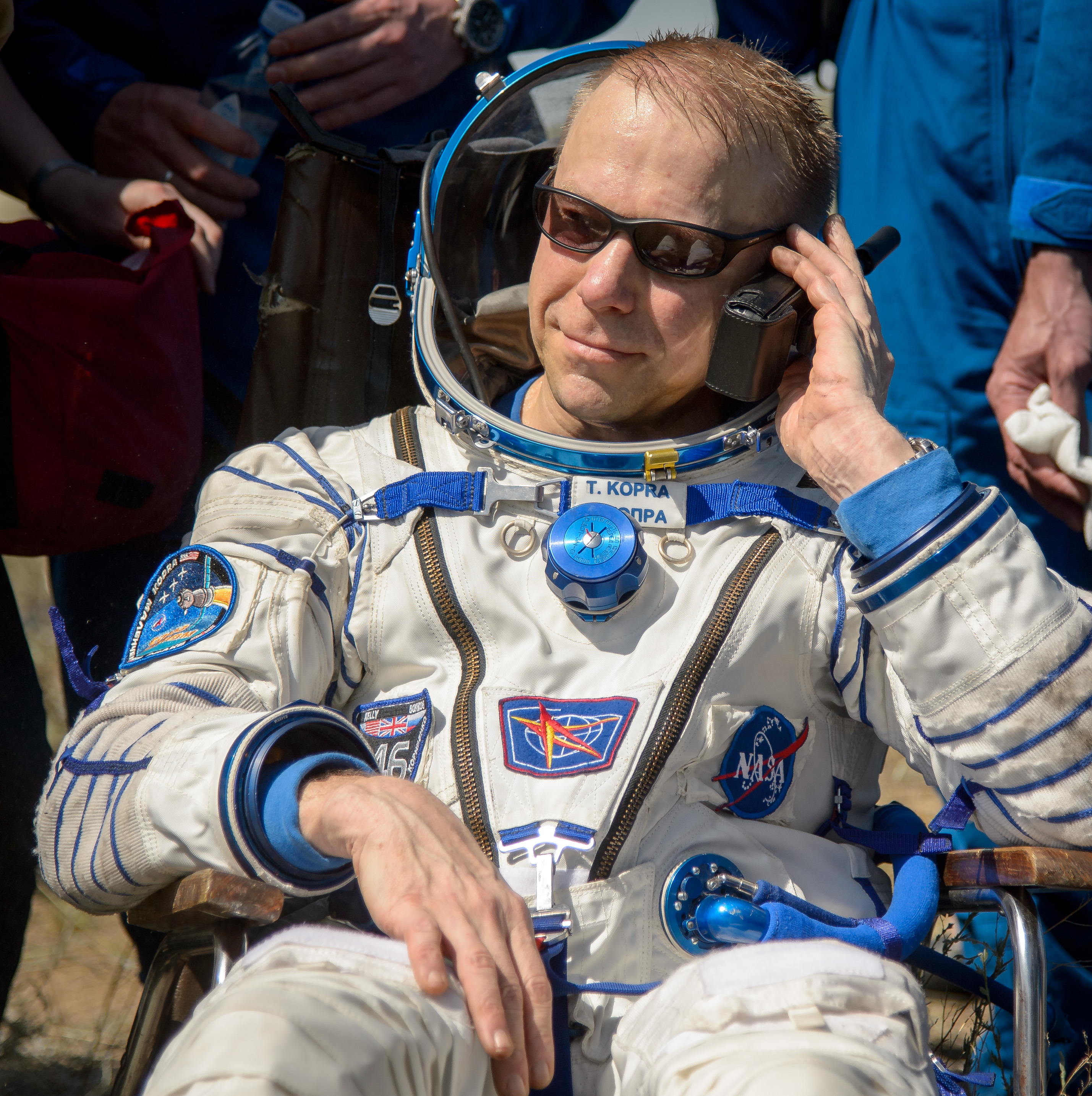 Tim Kopra of NASA talks on a satellite phone outside the Soyuz TMA-19M spacecraft just minutes after he and Yuri Malenchenko of Roscosmos and Tim Peake of the European Space Agency landed in a remote area near the town of Zhezkazgan, Kazakhstan on Saturday, June 18, 2016. Kopra, Peake, and Malenchenko are returning after six months in space where they served as members of the Expedition 46 and 47 crews onboard the International Space Station.